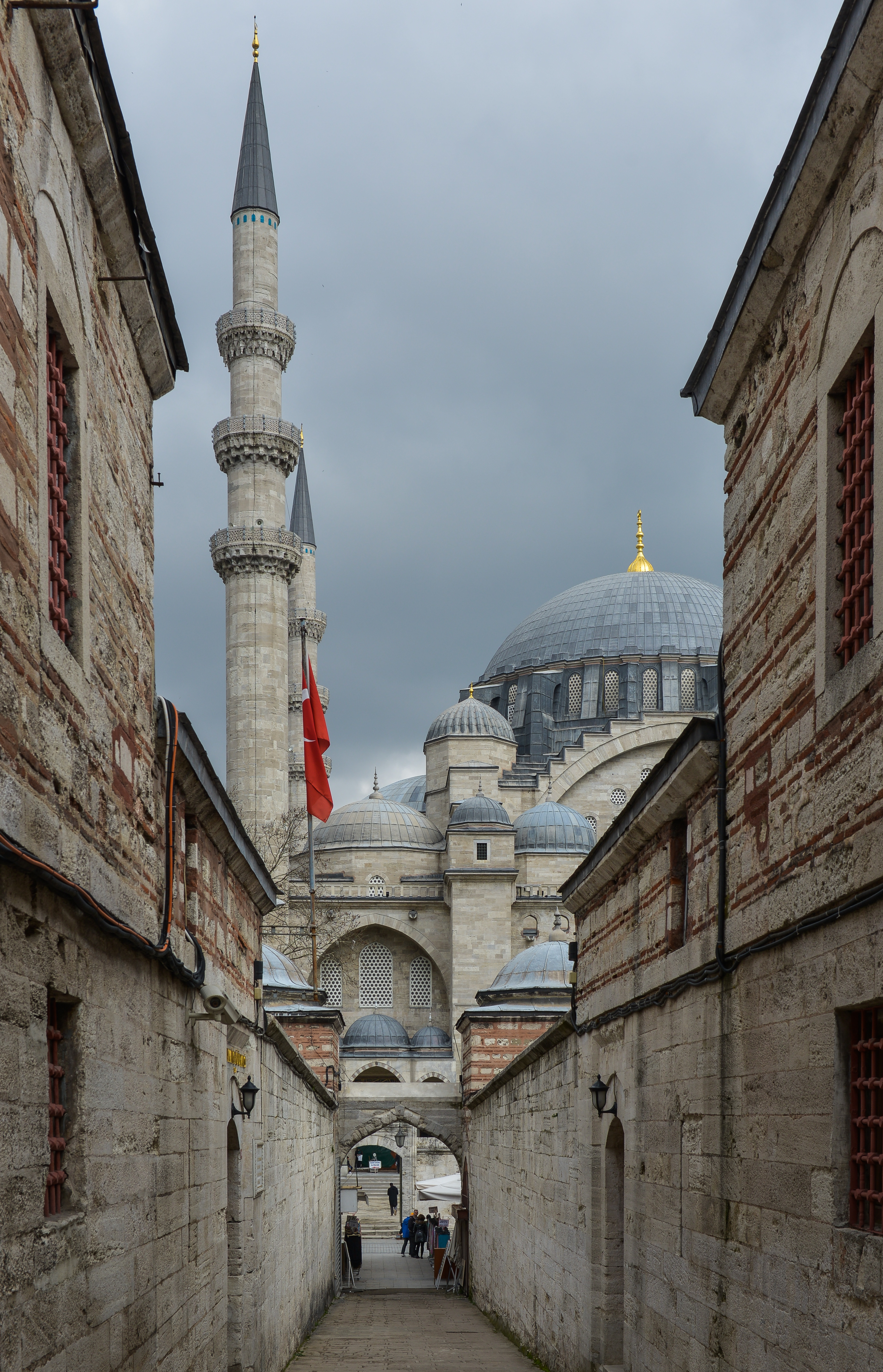 Süleymaniye Mosque seen from Süleymaniye library.